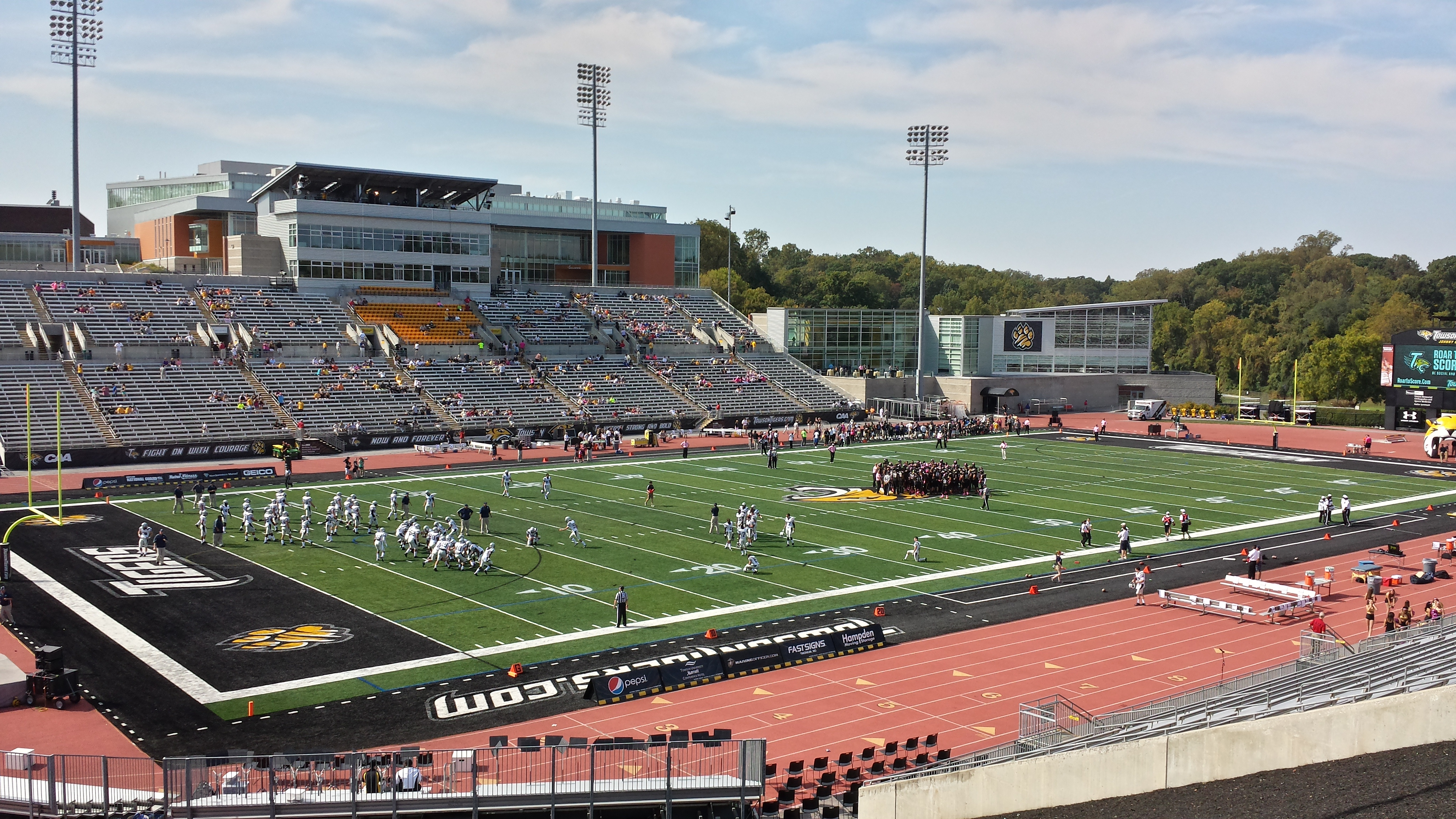 View of Johnny Unitas Stadium before a football game versus New Hampshire on Oct 5 2013.